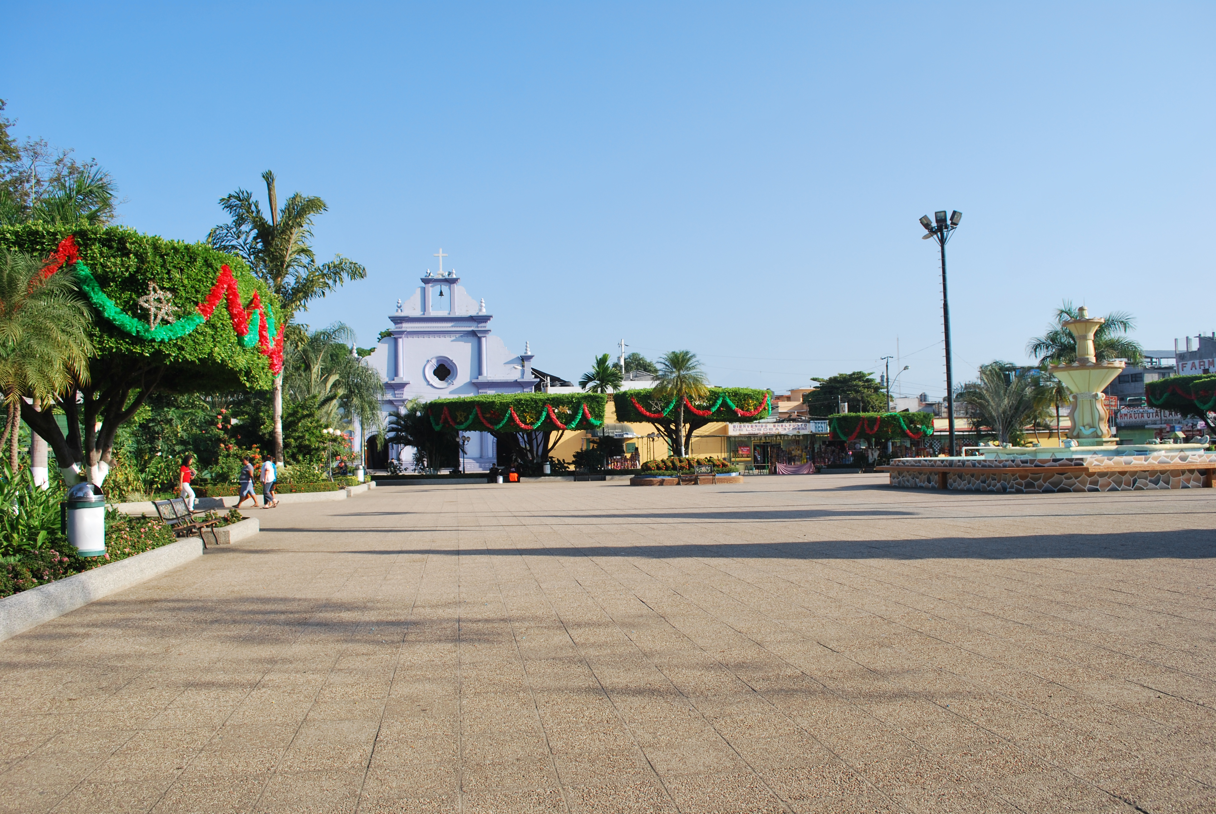 View of Plaza and church in Ciudad Tecun Uman, Guatemala